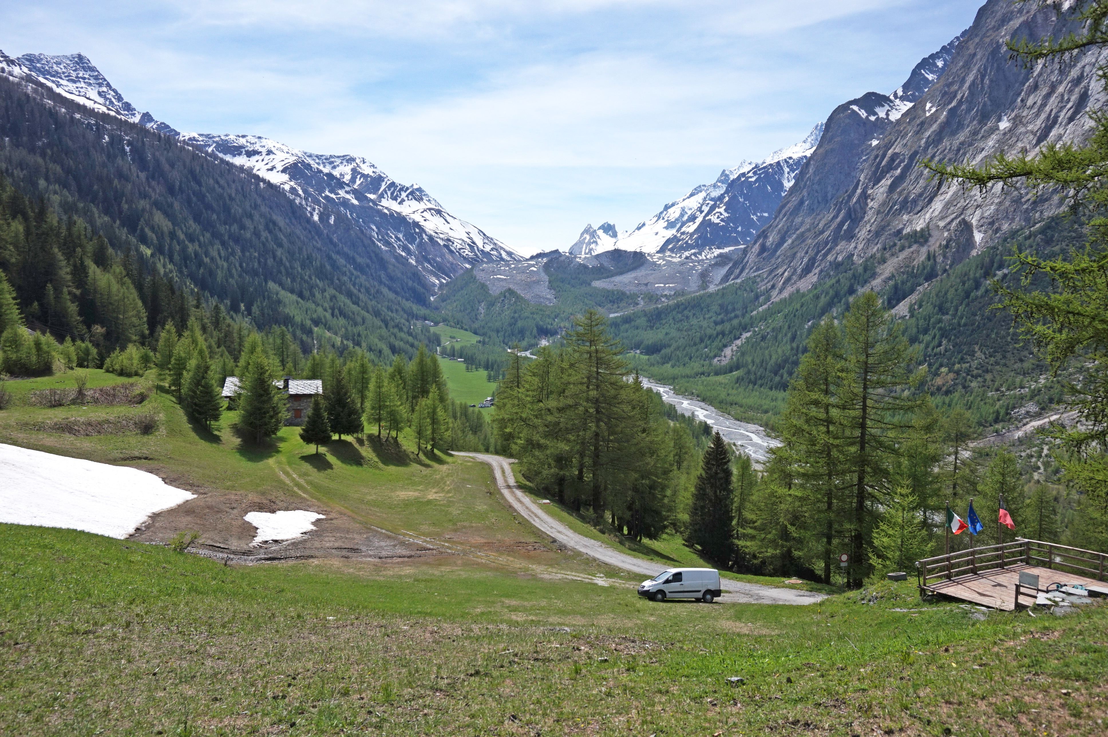 Val Veny in Italy. View from the southern side of the river Fiume Dora di Veny. This photograph was taken with a Sony Alpha a5000.